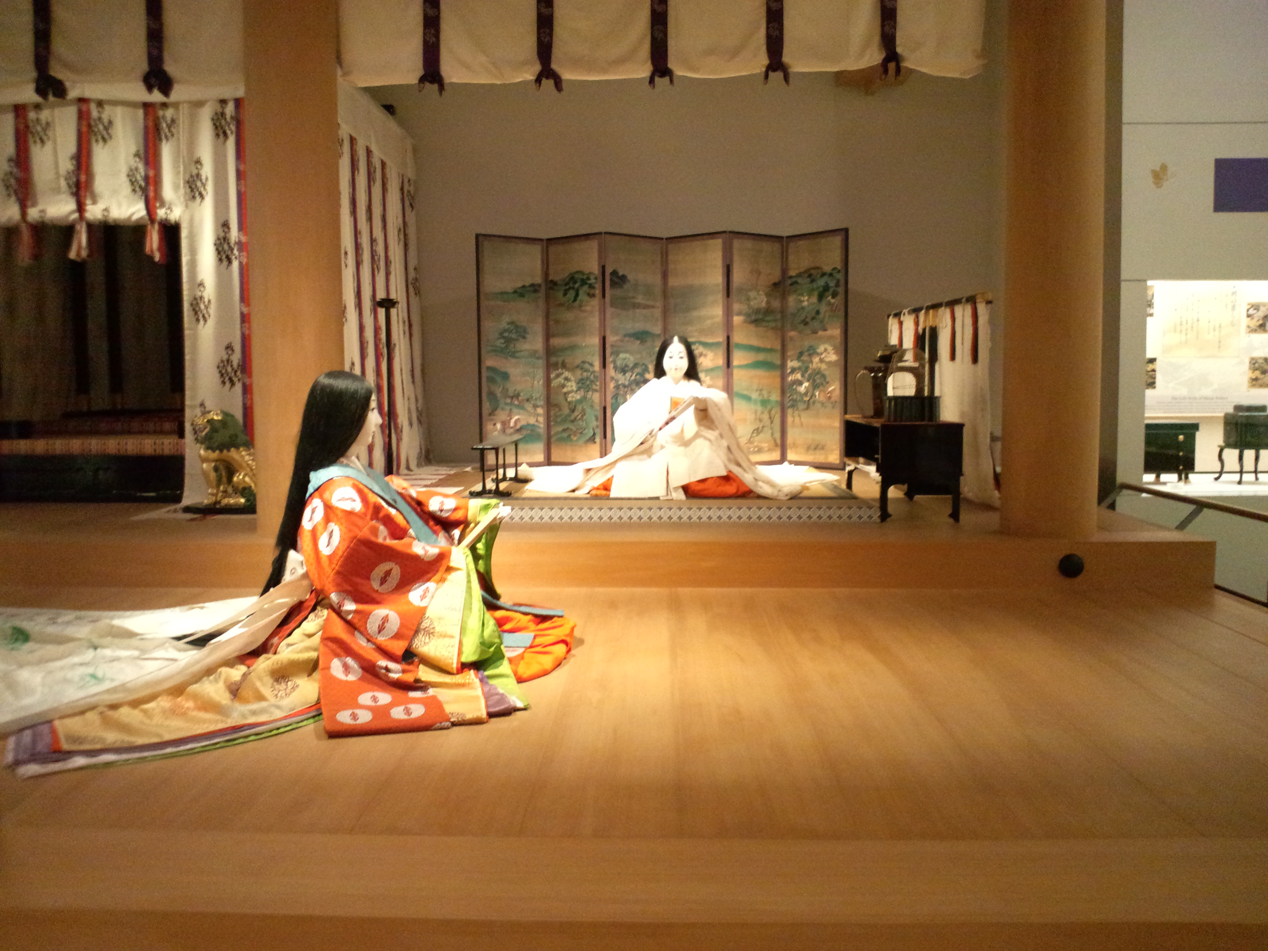 Room of the Saiō (Ise priest) at Saikū, late Heian period, museum reconstruction. The Saiō sits on a dais, with a byōbu behind her, a kichō to her left, and a boxlike chōdai to her right. Above and before her, a kabeshiro is rolled and tied up.